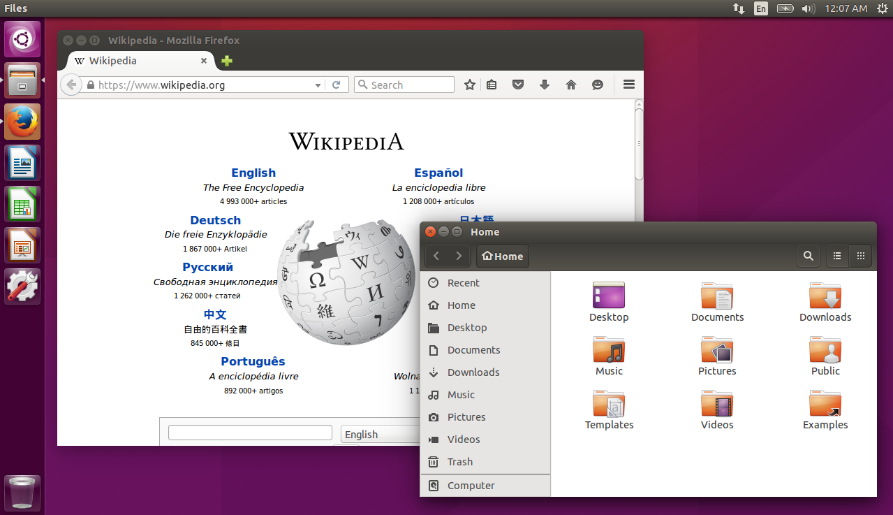 Ubuntu 15.10 with Firefox and Nautilus open